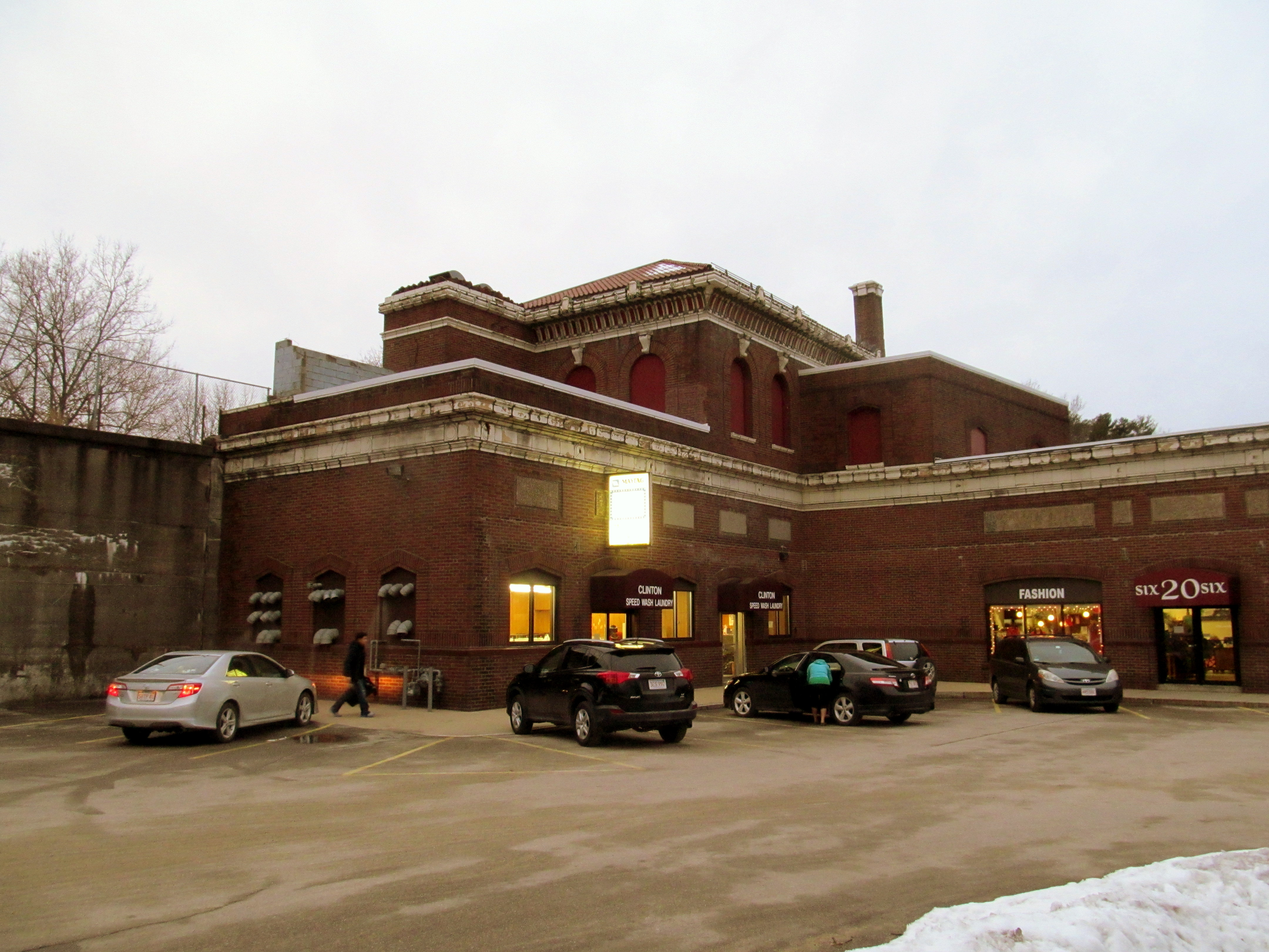 Center section of Clinton station in January 2016